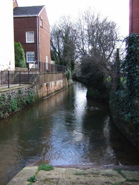 Higher Leat, Exeter. A slipway into the leat near Bonhay Road. The leat rejoins the Exe at Exeter Quay, having run past Exe Island on its right bank. For historical information on Exeter's leats, . On the left is West View Terrace; on the right are 346269. Looking downstream.